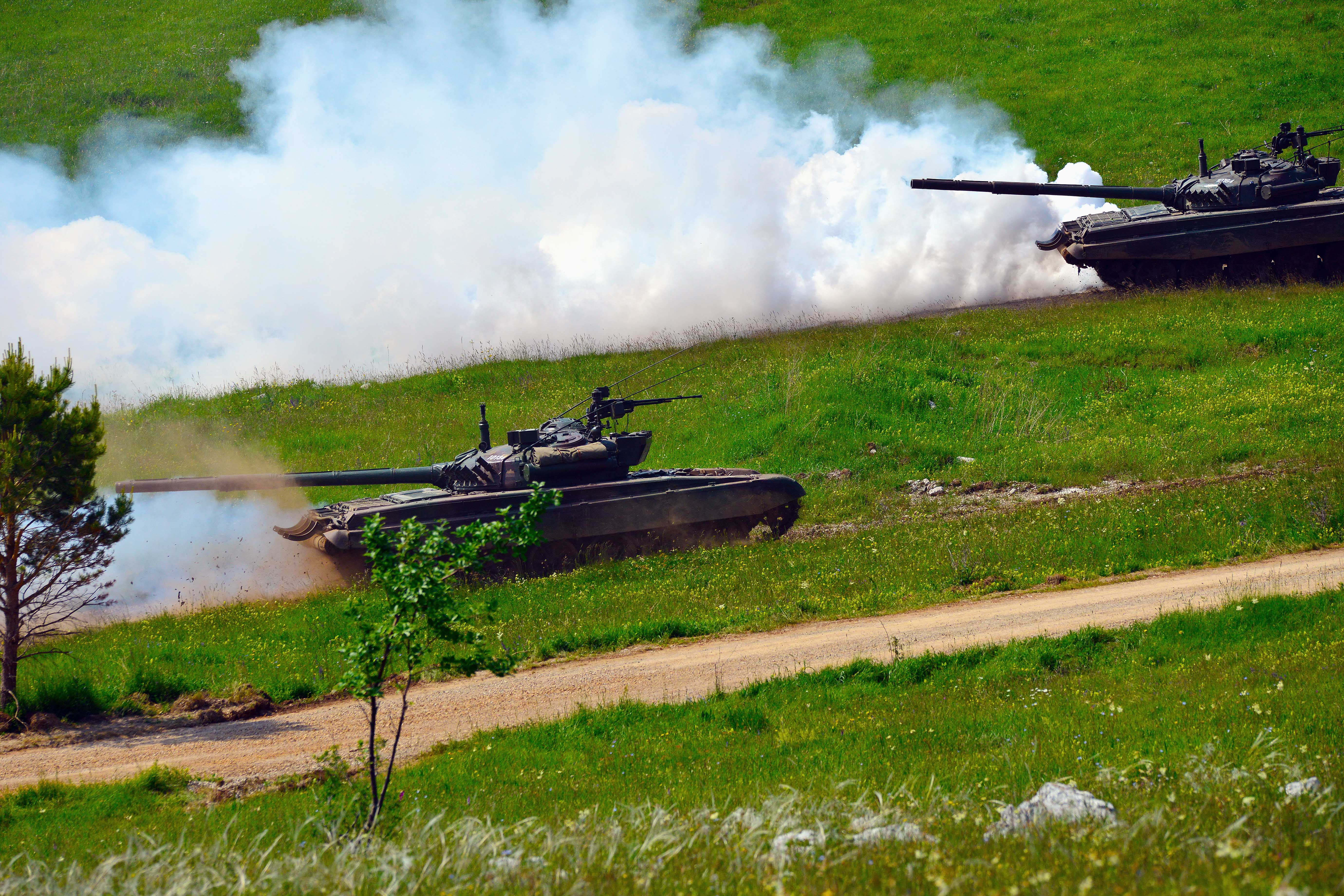 Slovenian M-84 tanks fire on targets called in by U.S. and Romanian soldiers during the Adriatic Strike exercise at Poček Range in Postojna, Slovenia, June 2, 2015.